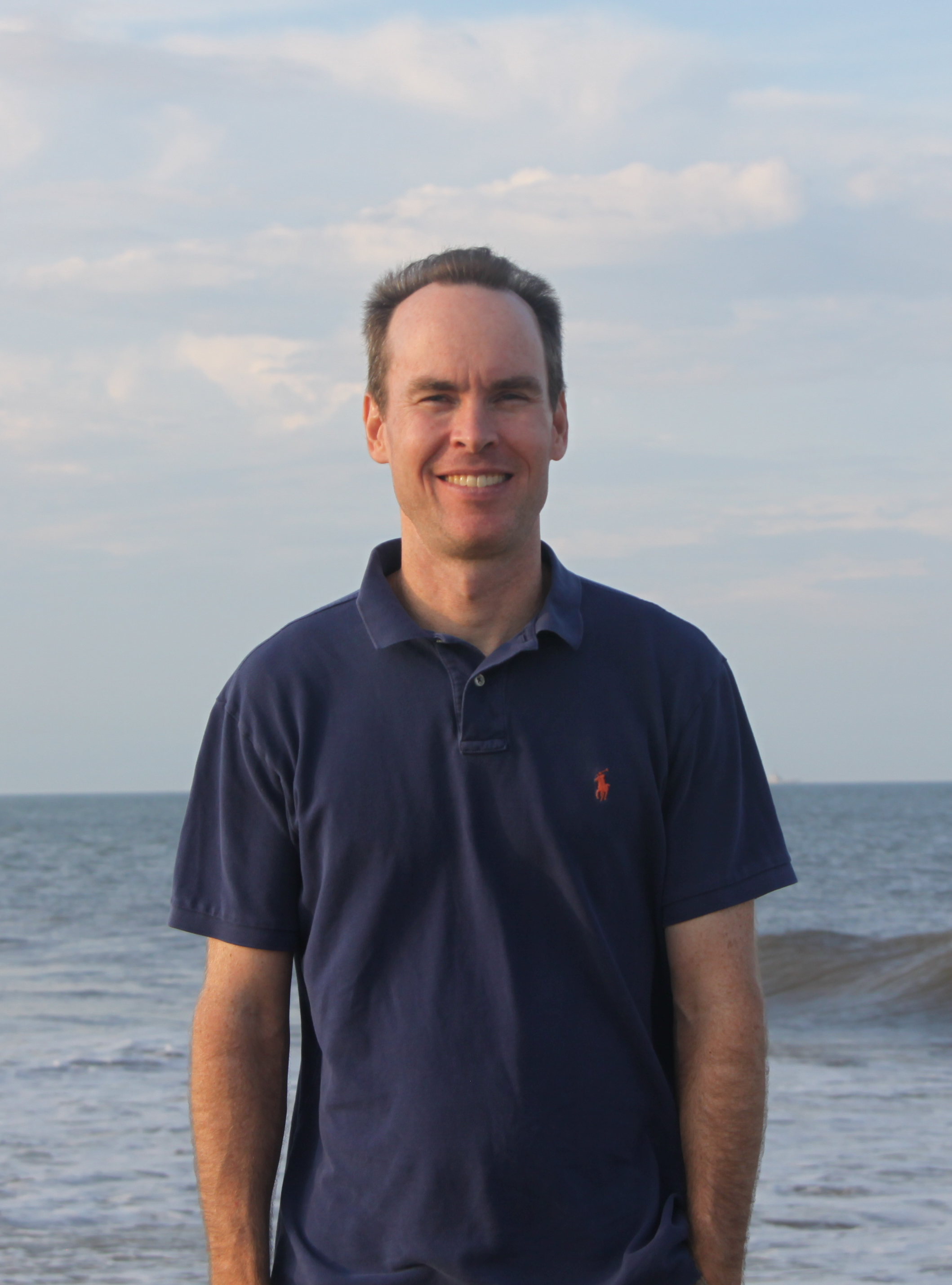 Kevin Scannell headshot